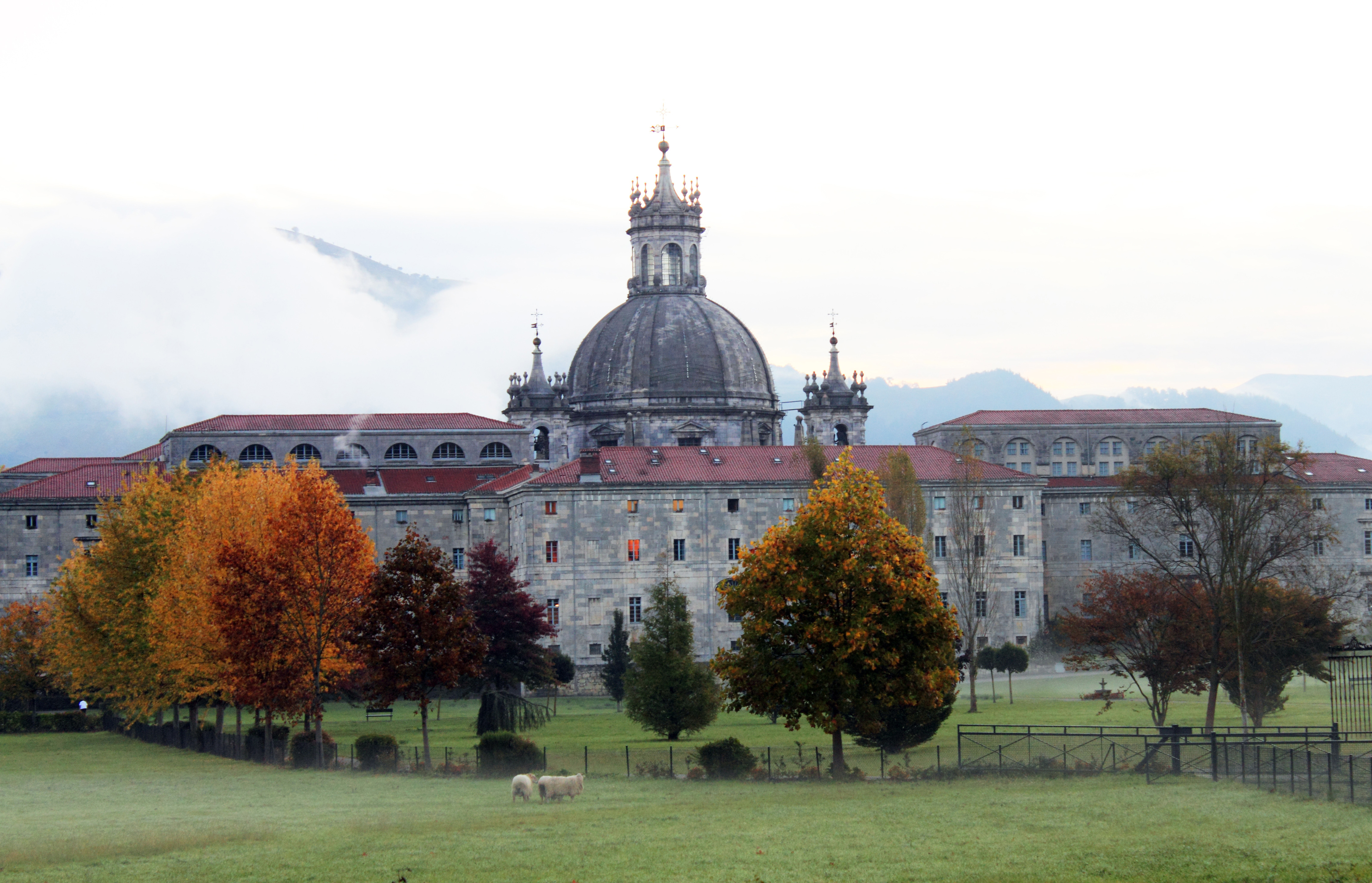 House and sanctuary of Ignatius of Loyola (Loyola - Azpeitia)